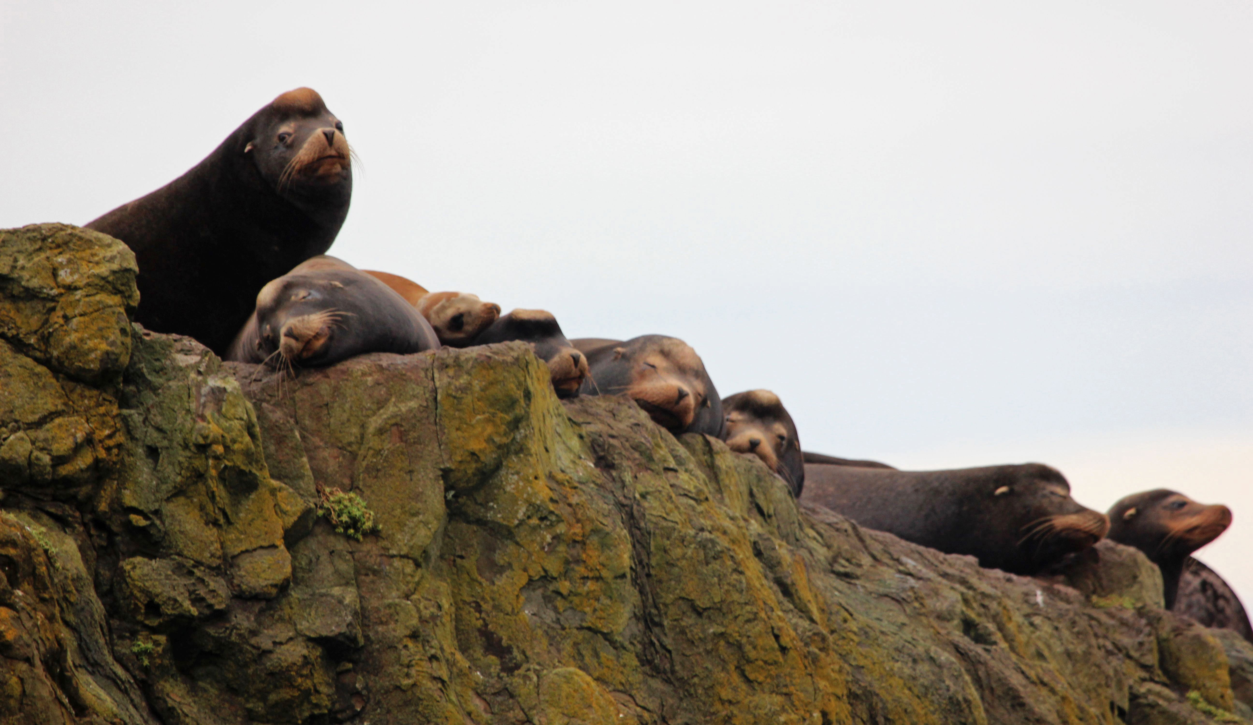 California Sea Lions You are free to use this image with the following photo credit: Peter Pearsall/U.S. Fish and Wildlife Service